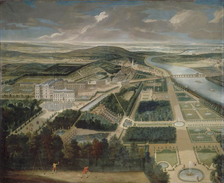 View of the estate of Saint Cloud by Étienne Allegrain